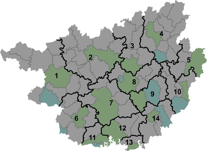 Map of prefectures of Guangxi Autonomous Region